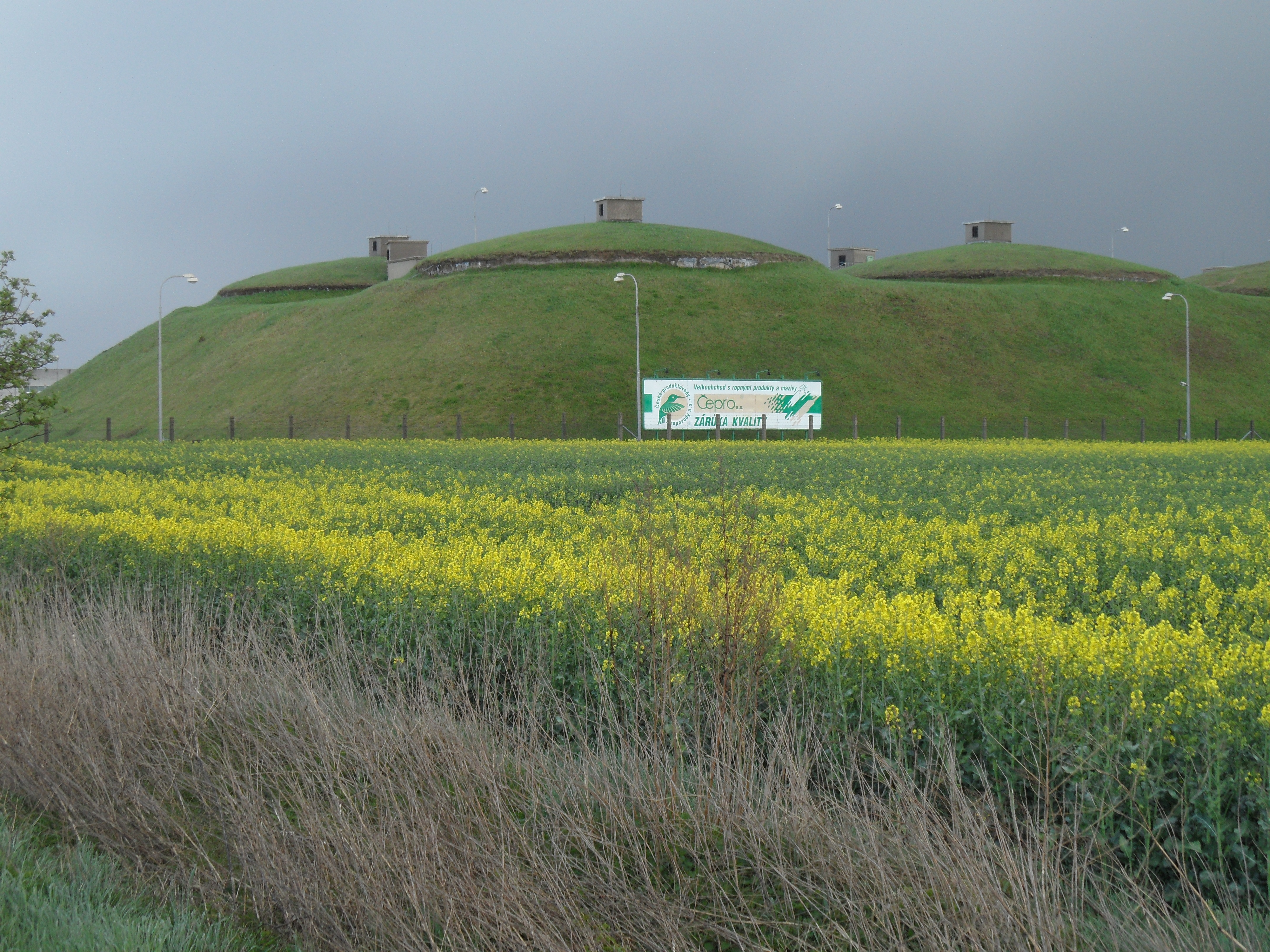 Nové Město (Břežany I) C. ČEPRO a.s. Warehouse Nové Město, View from Road I/12, Kolín District, the Czech Republic.